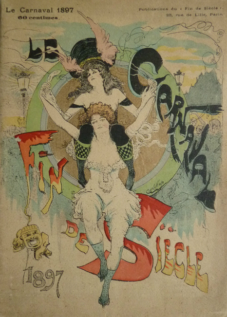 Front cover of Le Carnaval Fin de Siècle.